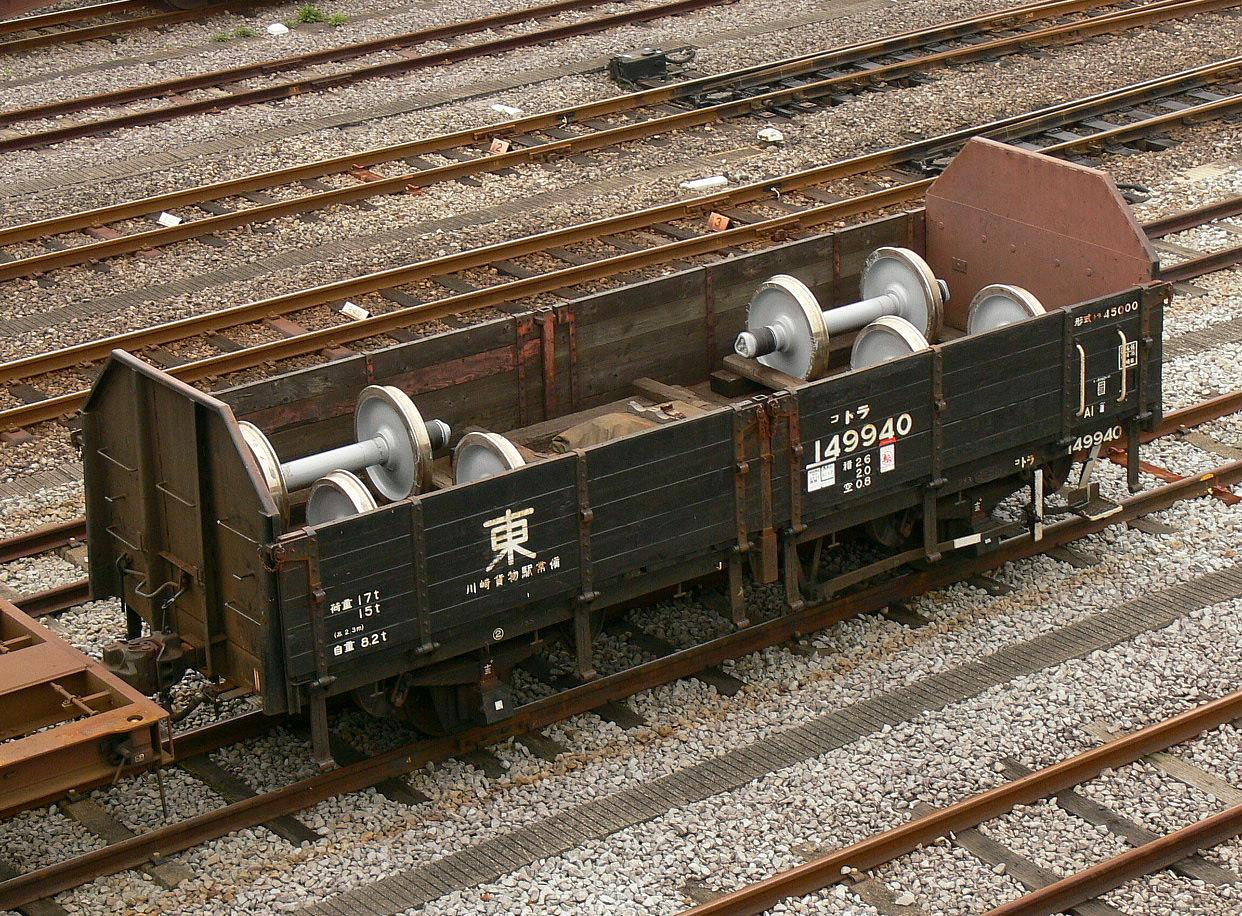 JNR Tora 149940 owned by JR Freight at the Kumagaya Freight Terminal. This wagon is used for transportation of rolling stock parts etc.